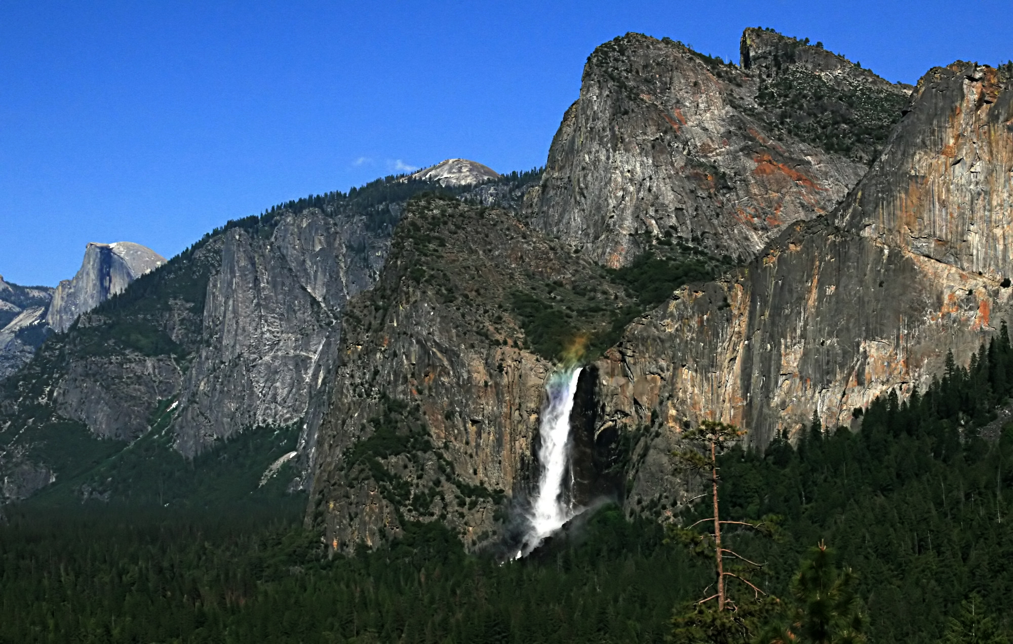 A rainbow over Bridalveil Fall seen from Tunnel View in Yosemite National Park flows from a U-shaped hanging valley that was created by a tributary glacier.